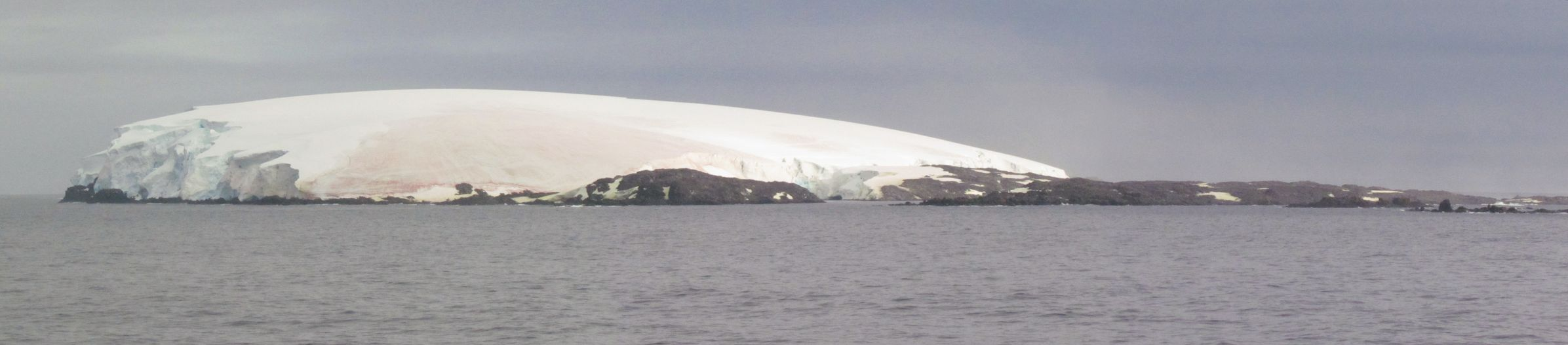 Panoramic view of Hugo Island, Antarctic Peninsula.